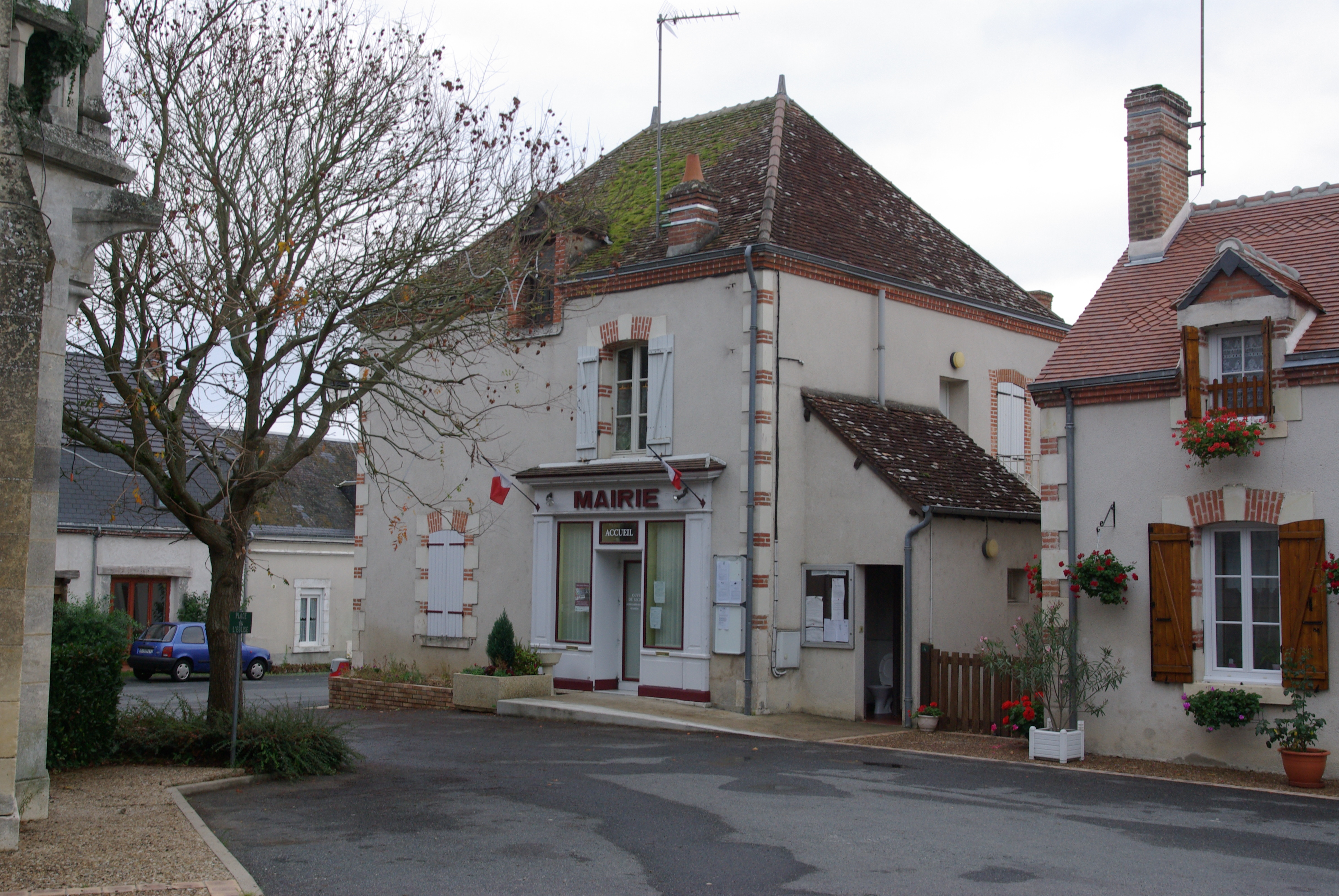 Thénioux, the mayor's office